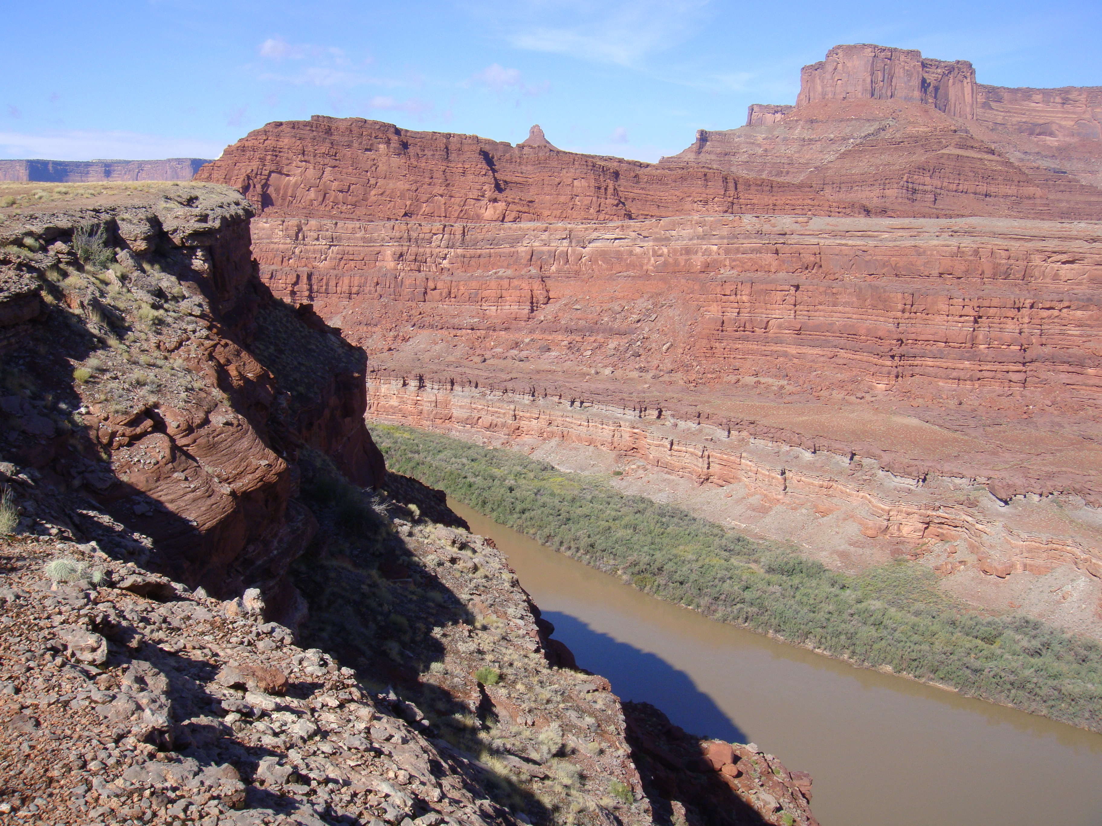 Dead Horse Point, as seen from the Chicken Corners off-road trail, west of Moab, on the Colorado River. The prominence of Dead Horse Point are bedded-cliffs of Kayenta Formatin, upon (vertical, columnar)-Wingate Sandstone cliffs. The Wingate sits on eroded slopes of the Chinle Formation. At the Colorado River, cliffs of Cedar Mesa Sandstone, are multi-bedded sectins of (darker red) Organ Rock Formation.